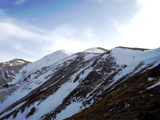 Barfanbar Mount, Qom, Iran